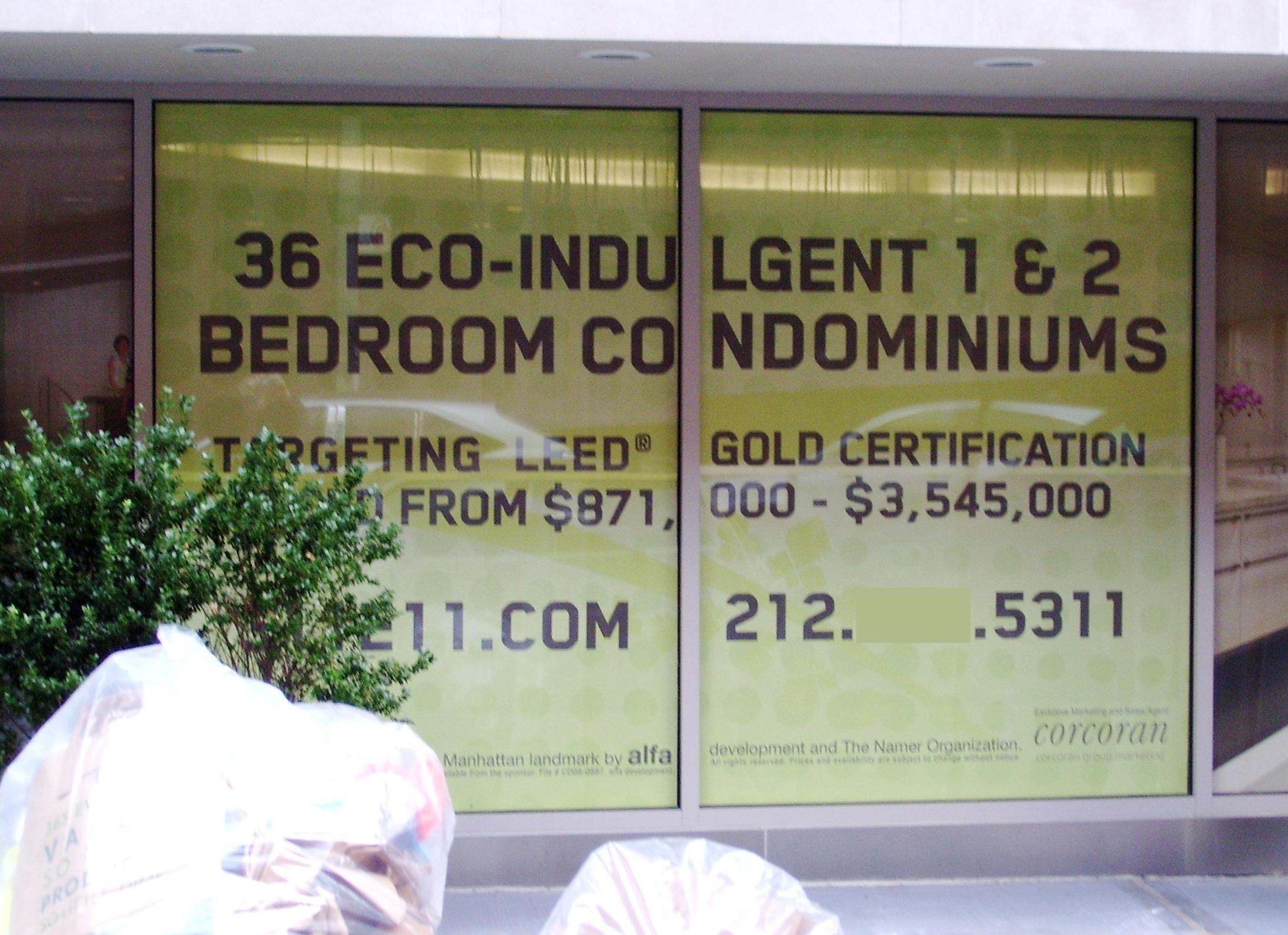 Advertisement for "eco-indulgent" condominiums on a new building on East 11th Street between First and Second Avenues in the East Village neighborhood of Manhattan, New York City